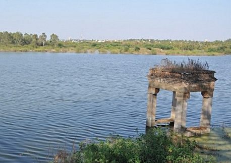 Lingambudhi Lake Myself.